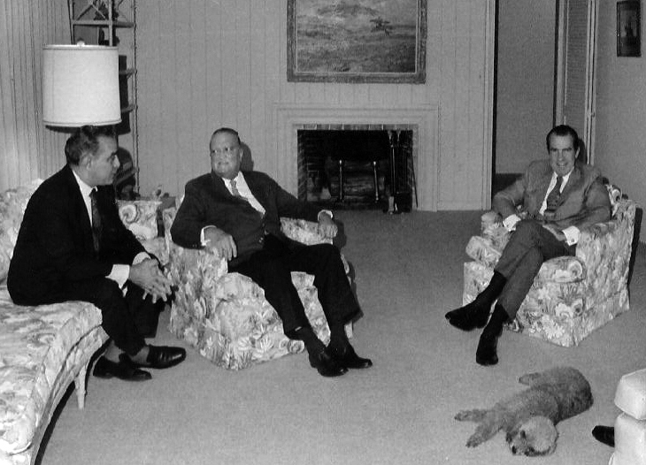 President Richard Nixon's friend Bebe Rebozo (left), FBI director J. Edgar Hoover (center), and President Nixon (right).